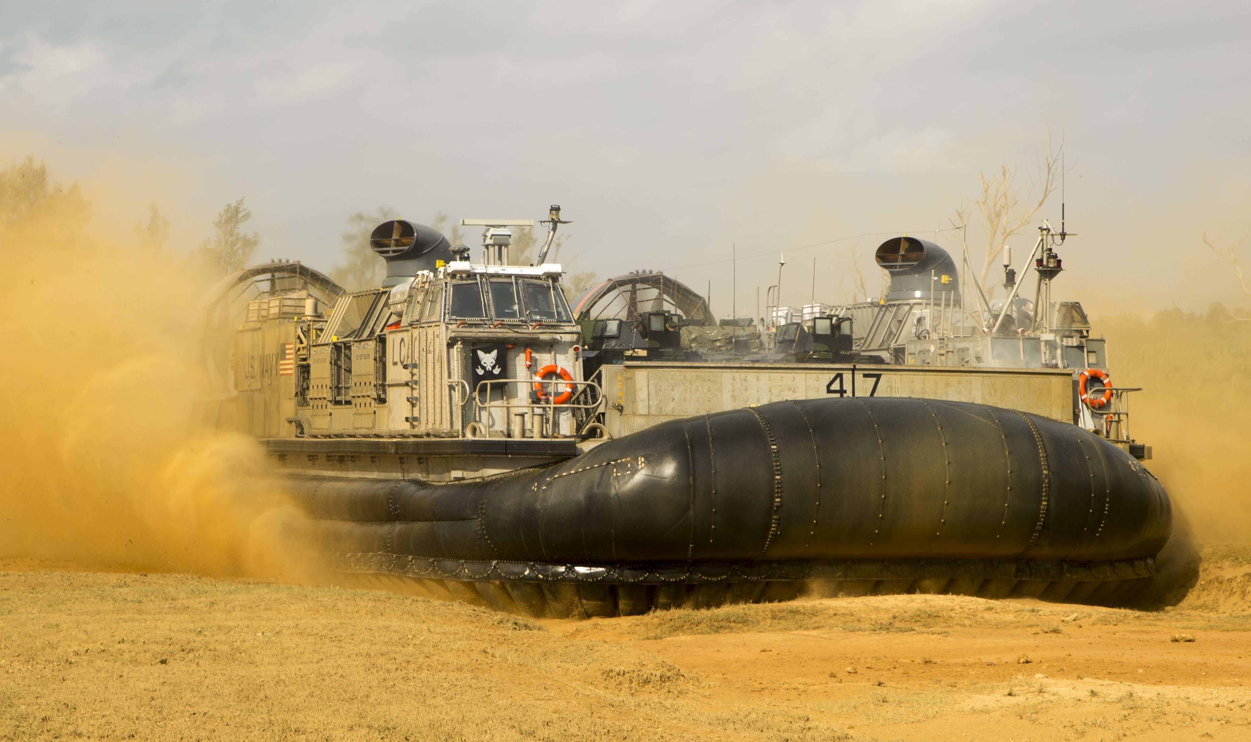 Landing Craft Air Cushioned 47 prepares to deflate on Kin Blue Beach, Okinawa, Japan, Feb. 22. The LCAC was participating in an embassy reinforcement drill. It tests their ability to deploy fast and help support an embassy. The LCAC is used to transport gear, weapons, personnel and cargo from ships to shore. The LCAC is with Naval Beach Unit 7. (U.S. Marine Corps photo by Cpl. Robert Williams Jr./Released)